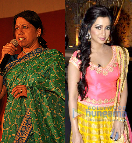 Combination of photos of Indian singers Kavita Krishnamurty & Shreya Ghoshal to show their joint win in 2003 in table of Filmfare Awards laureates